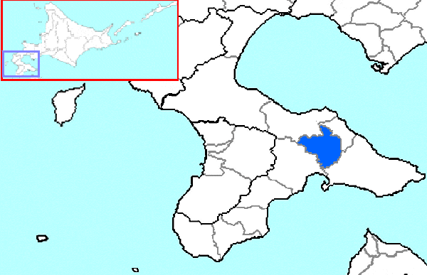 The location of Nanae in Oshima Subprefecture, Hokkaido Prefecture, Japan.